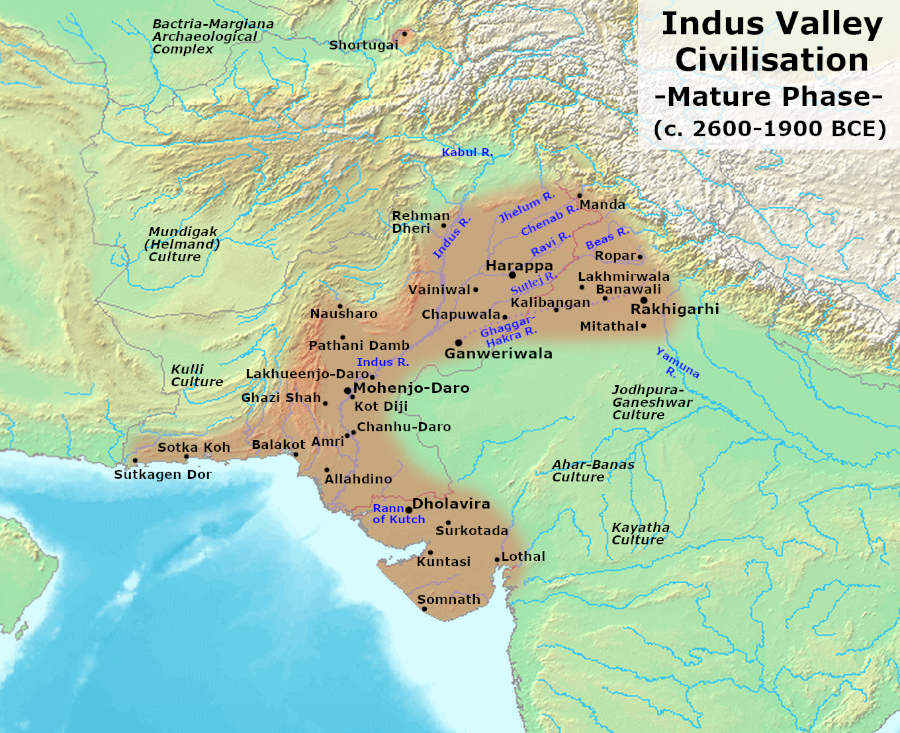 Sources: McIntosh, Jane (2008). The Ancient Indus Valley: New Perspectives. ISBN 978-1-57607-907-2. Background from Made with GIMP